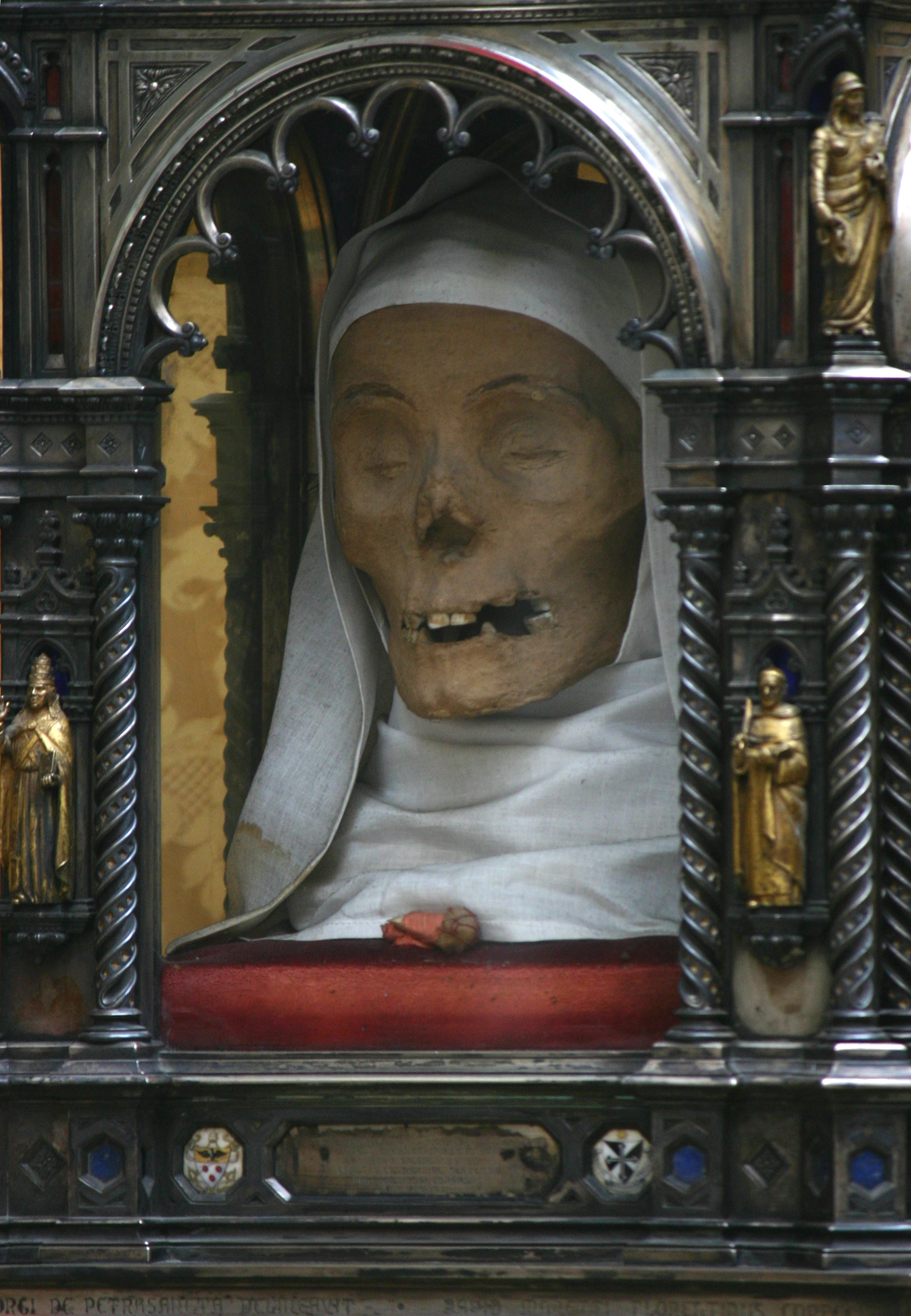 Head of St. Catherine of Siena during a procession.